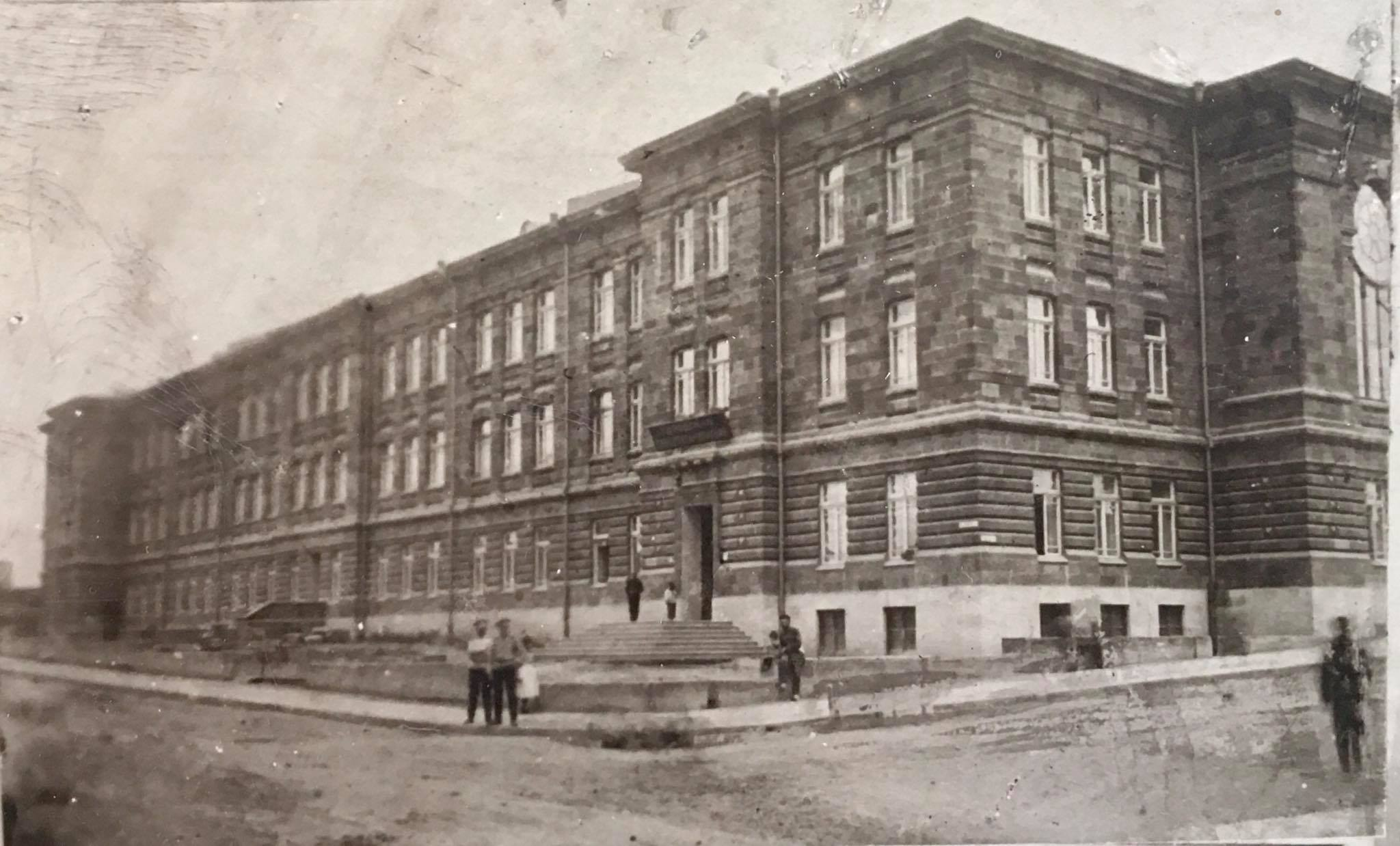 Aleksandropol Trade Gymnasium in 1917